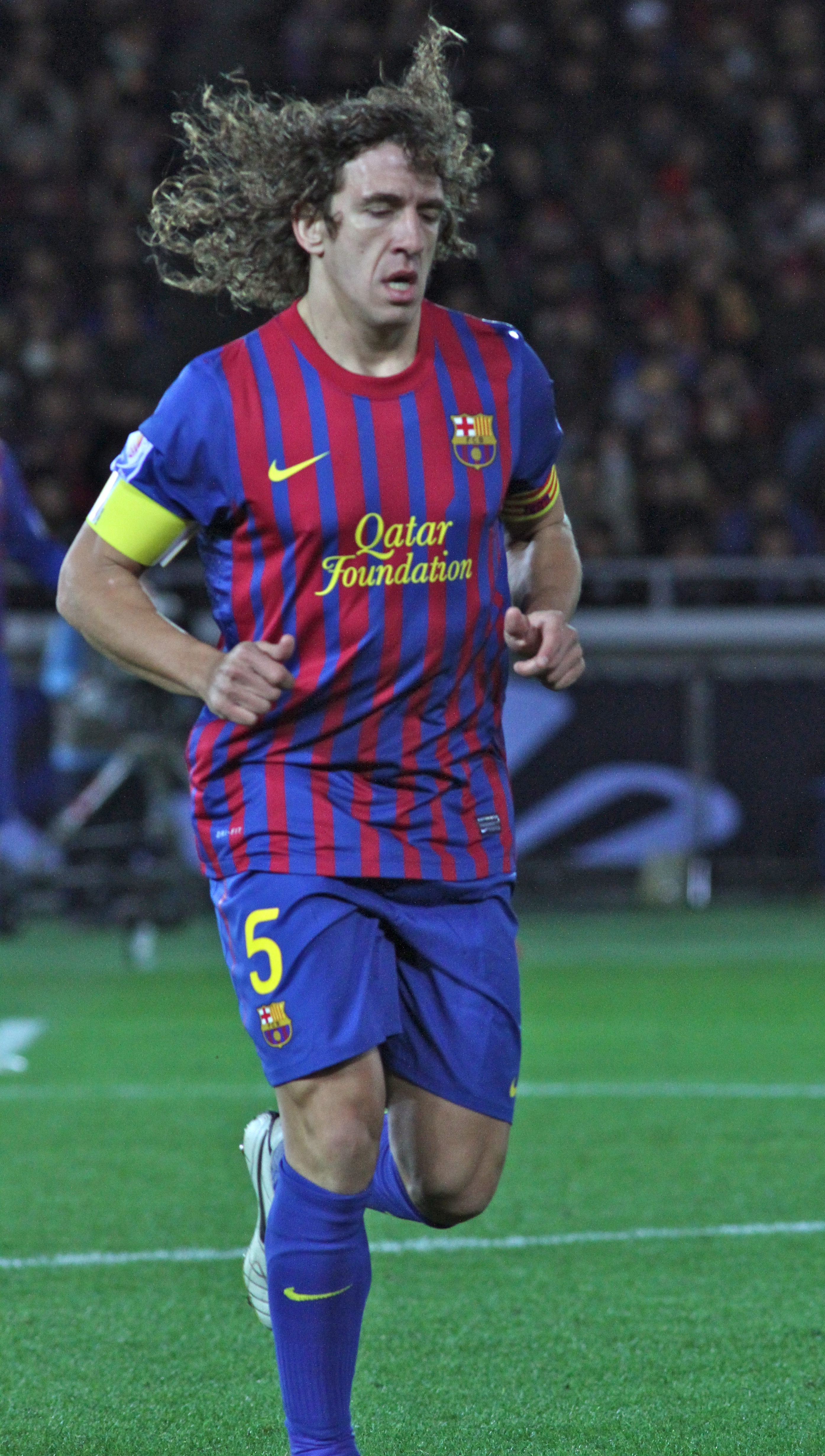 Puyol en el mundial de clubes de la FIFA 2011